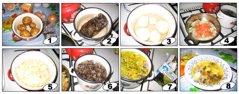 How to make mushroom soup